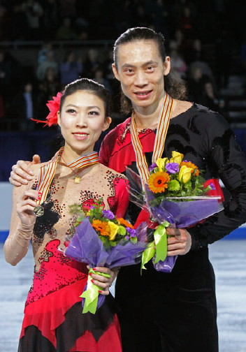 Pang Qing & Tong Jian (CHN) during the pairs medals ceremony at the 2009 Four Continents Championships. They won the gold medal at this event.